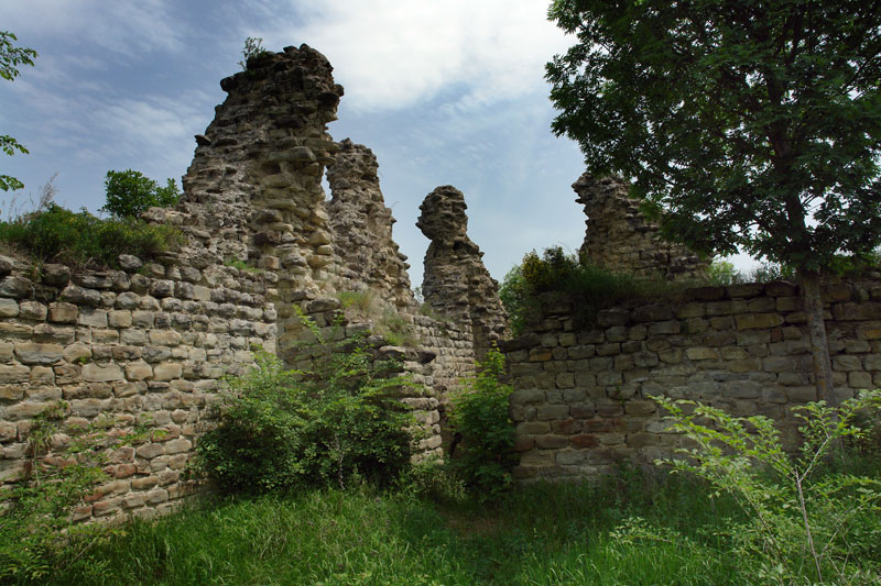 Ujarma Kakheti. City-fortress Ujarma is situated on the right bank of the river Iori, in 45 km to the east of Tbilisi.